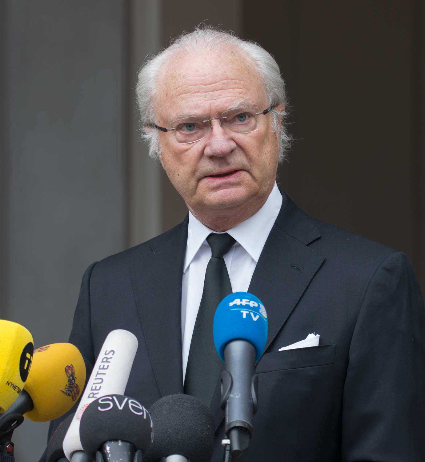 The day after the terrorist attack in Stockholm in april 2017.